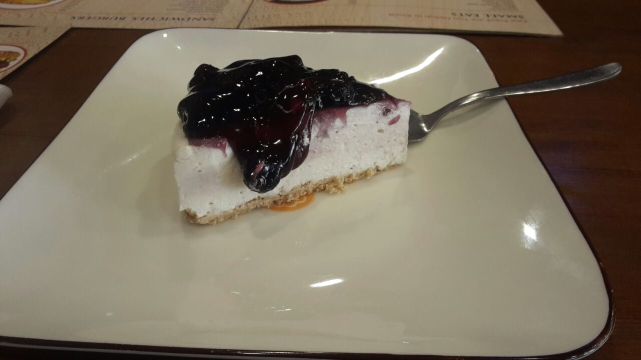 blue berry cheese cake with tangy taste